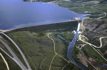 Aerial view of Clark Canyon Dam, Beaverhead County, Montana. US Bureau of Reclamation photo.